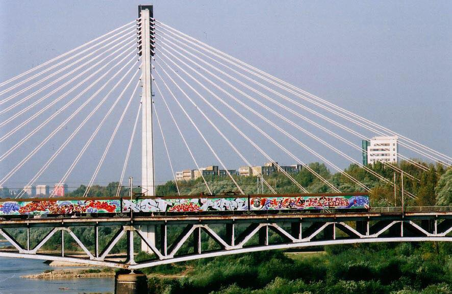 Wholetrain